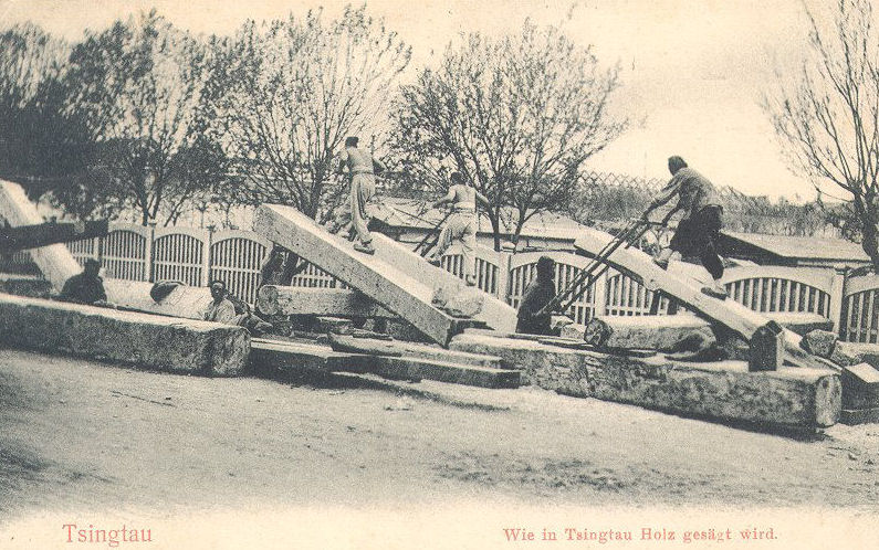 historic postcard of Qingdao, China (around 1900)